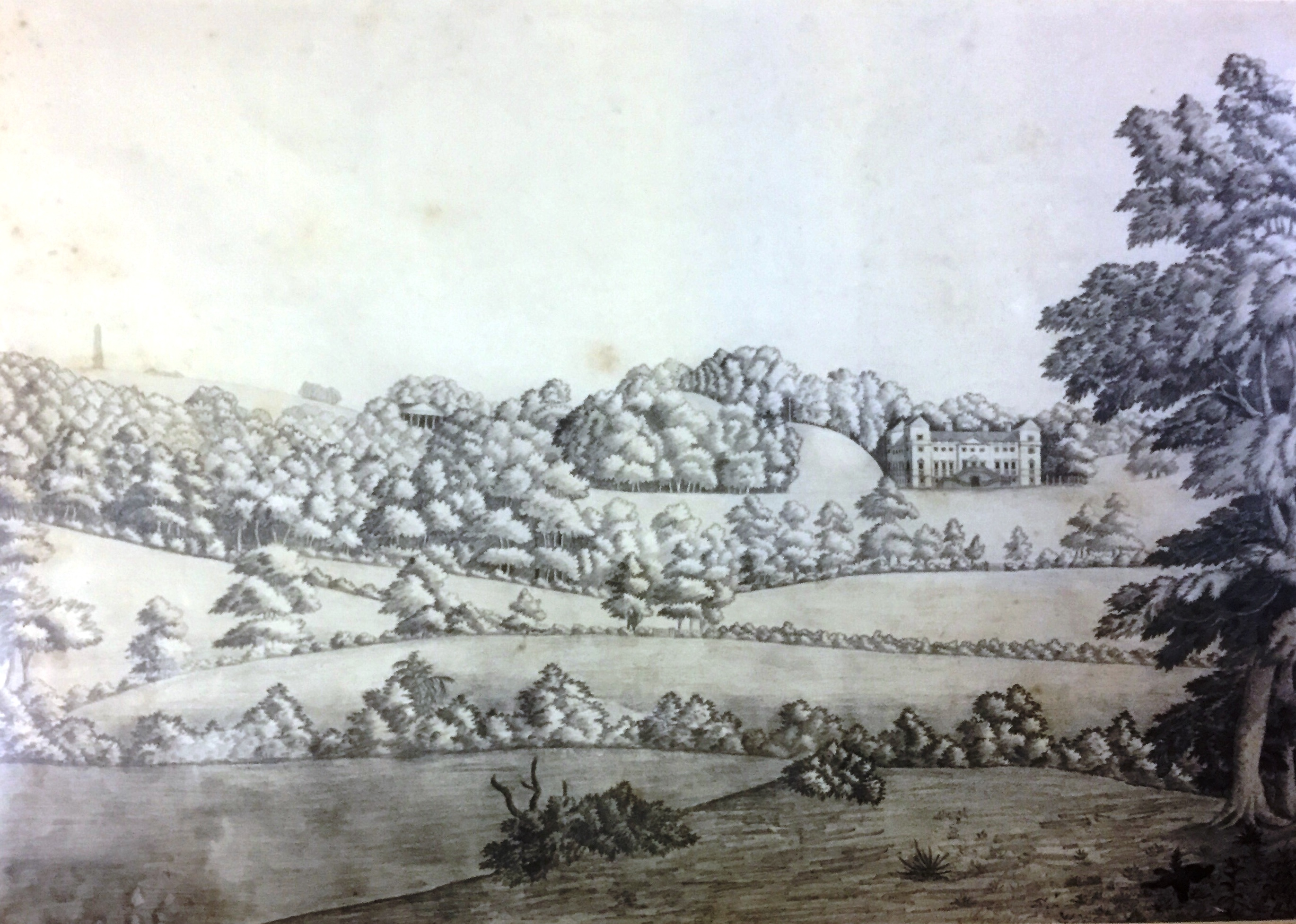 A 19th century pencil sketch of Hagley Park Worcestershire, viewed across the fields from the Bromsgrove road and showing Hagley Hall, the Temple of Theseus and Wychbury Obelisk beyond it at top left